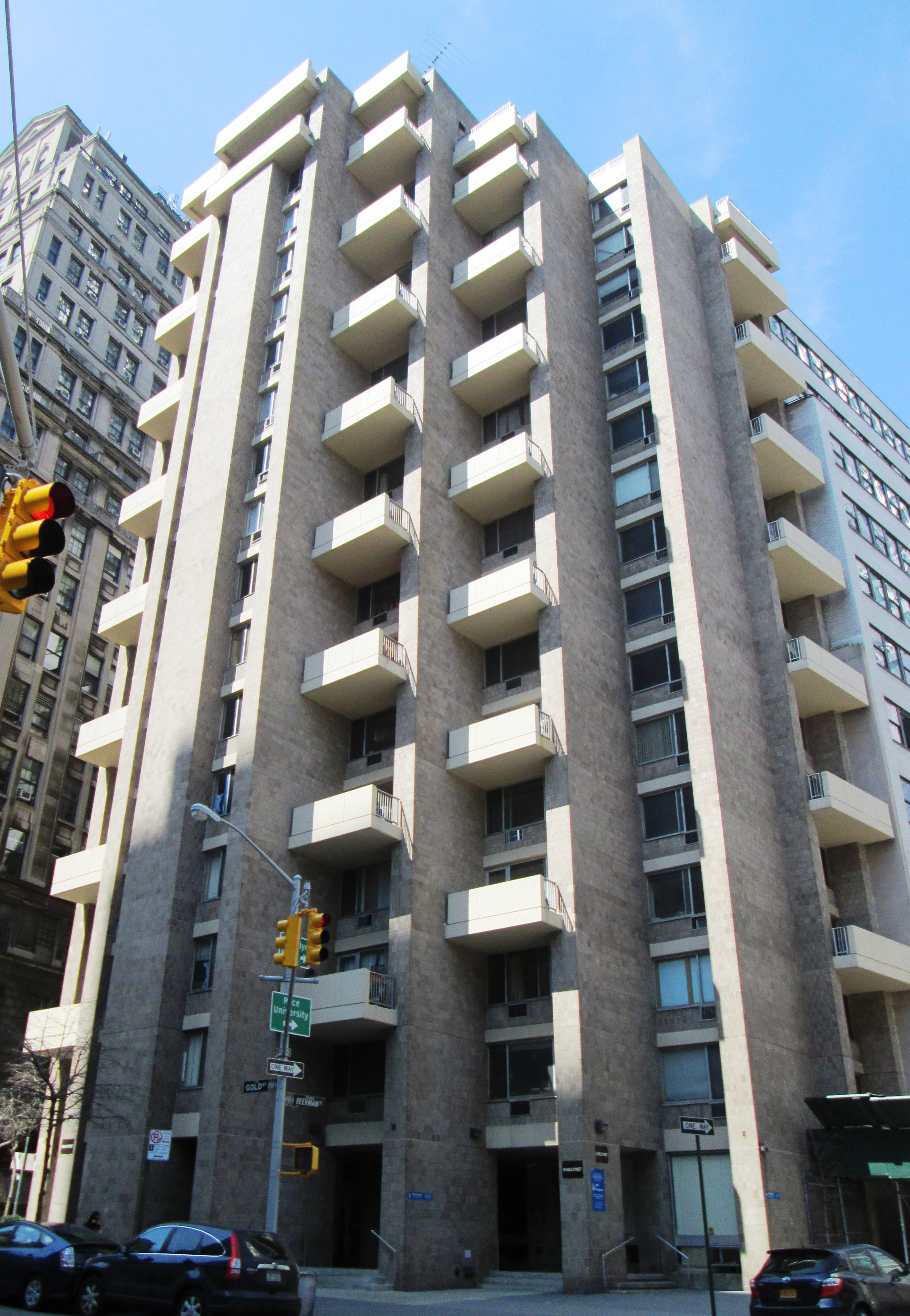 The New York Downtown Hospital Staff Residence at 69 Gold Street between Ann and Beekman Streets in the Financial District of Manhattan, New York City was built in 1972 and was designed by the Gruzen Partnership. (Source: AIA Guide to NYC (5th ed.))